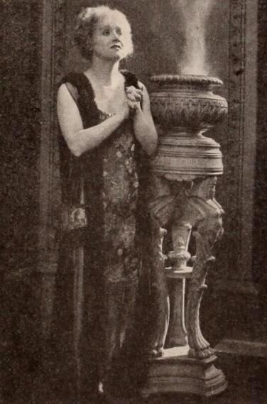 Still from the American drama film Within the Cup (1918) with Bessie Barriscale, on page 12 of the March 2, 1918 Exhibitors Herald.